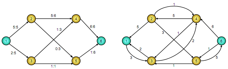 Mạng G và luồng f. Đồ thị có trọng số Gf tương ứng.